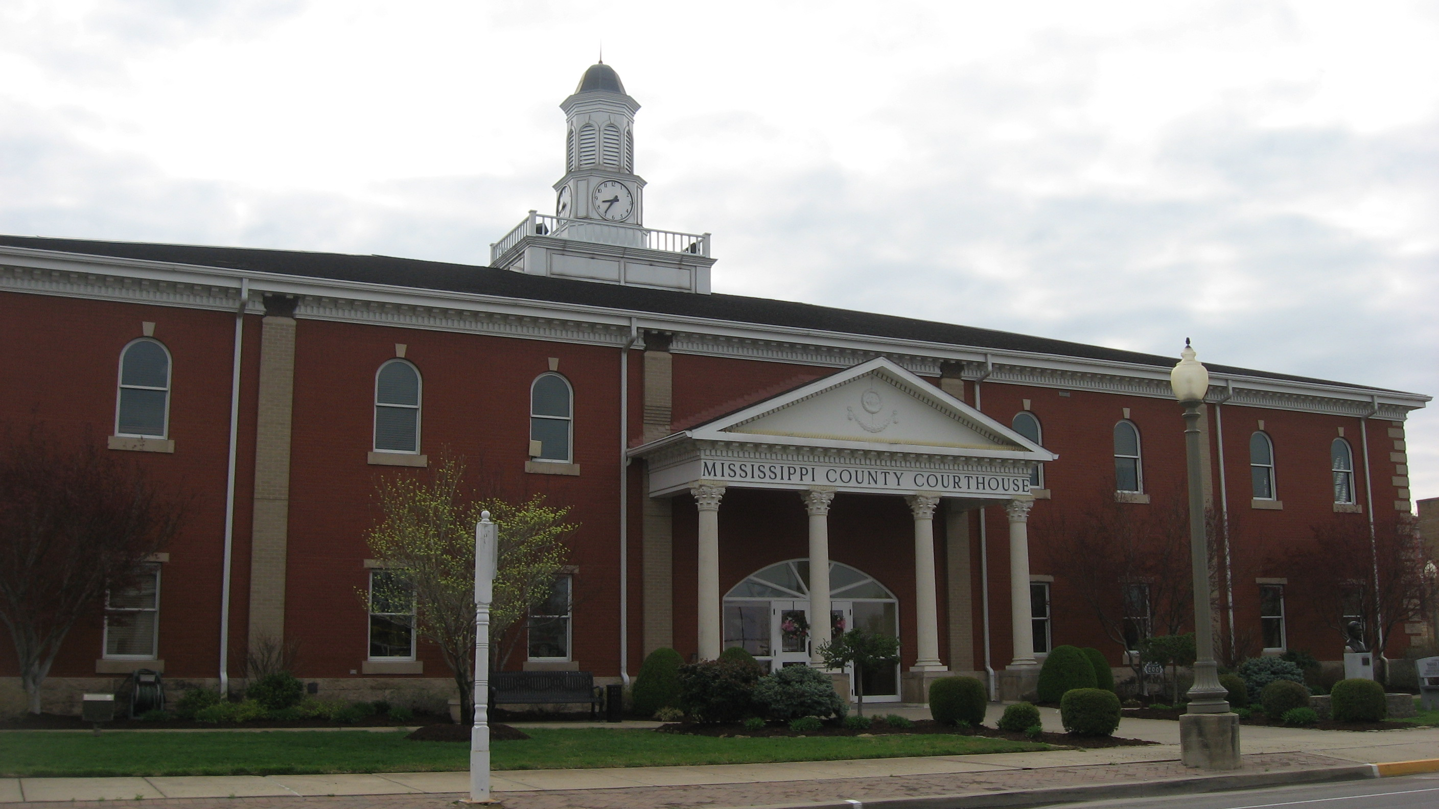 Front of the Mississippi County Courthouse, located at 200 N. Main Street in Charleston, Missouri, United States.